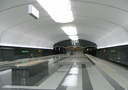 Gorki metro station, Kazan, Russia